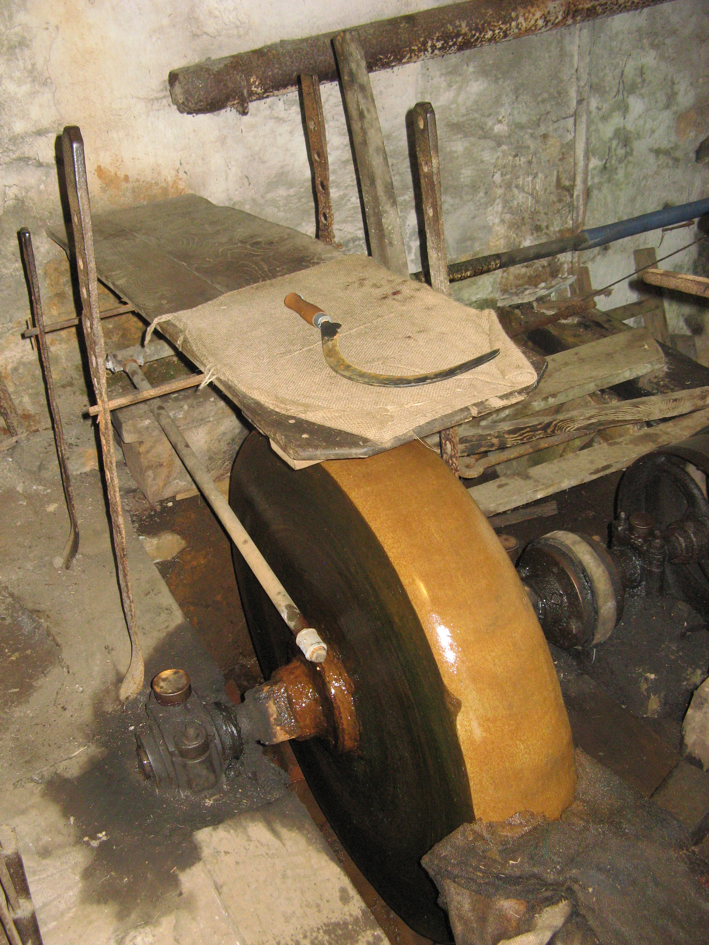 Waterwheel powered grindstone at Finch Foundry, Sticklepath, Devon, England. The user would lie on the plank above the grindstone while grinding metal items, giving rise to the phrase nose to the grindstone.